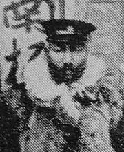 Ainu Explorer from Sakhalin,山辺安之助（YAMABE Yasunosuke）